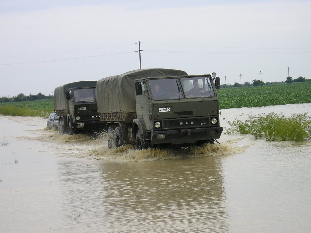 Military DAC trucks used to transport supplies during floods.